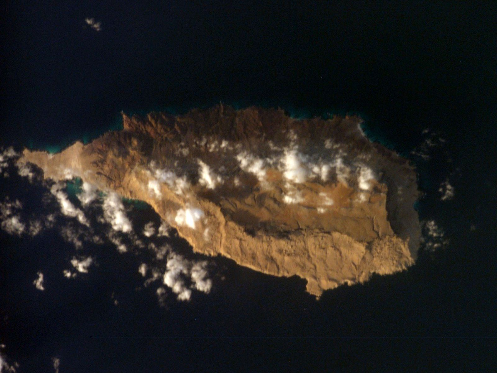 NASA astronaut image of Samhah island, Socotra Archipelago, Yemen